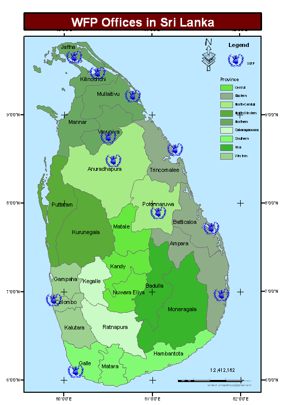 This shows the locations of the WFP office in Sri Lanka.